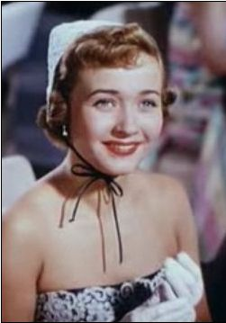 Cropped screenshot of Jane Powell from the trailer for the film Rich, Young and Pretty.